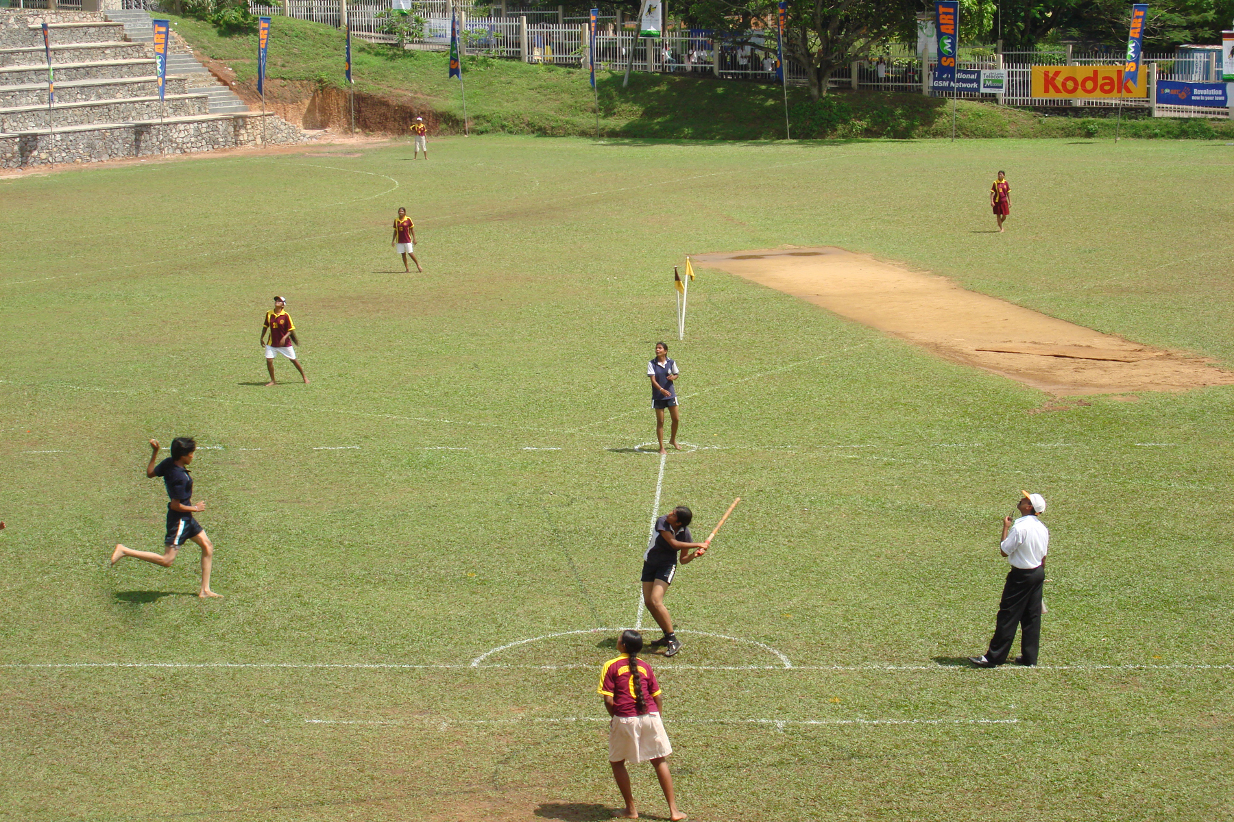 (SLUG) An Elle match in progress